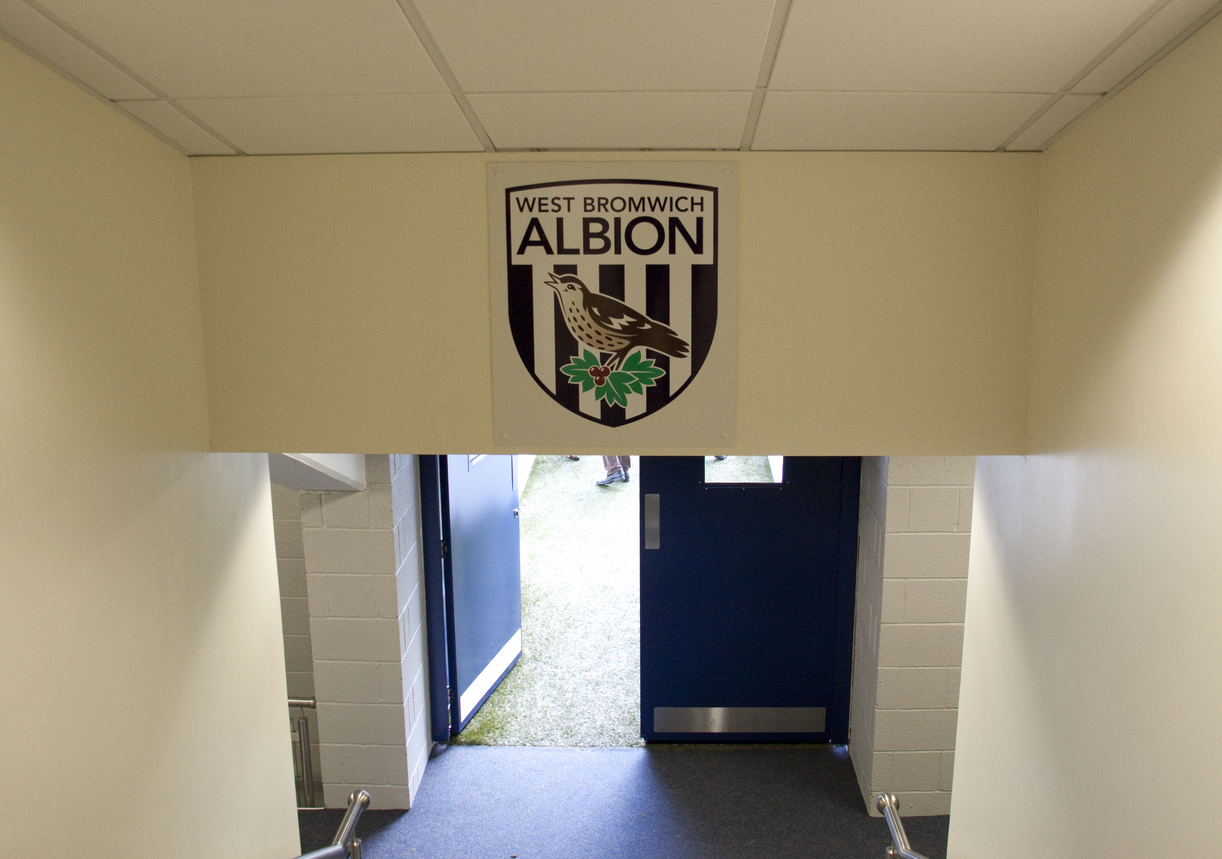 Players tunnel exit to the pitch at the Hawthorns